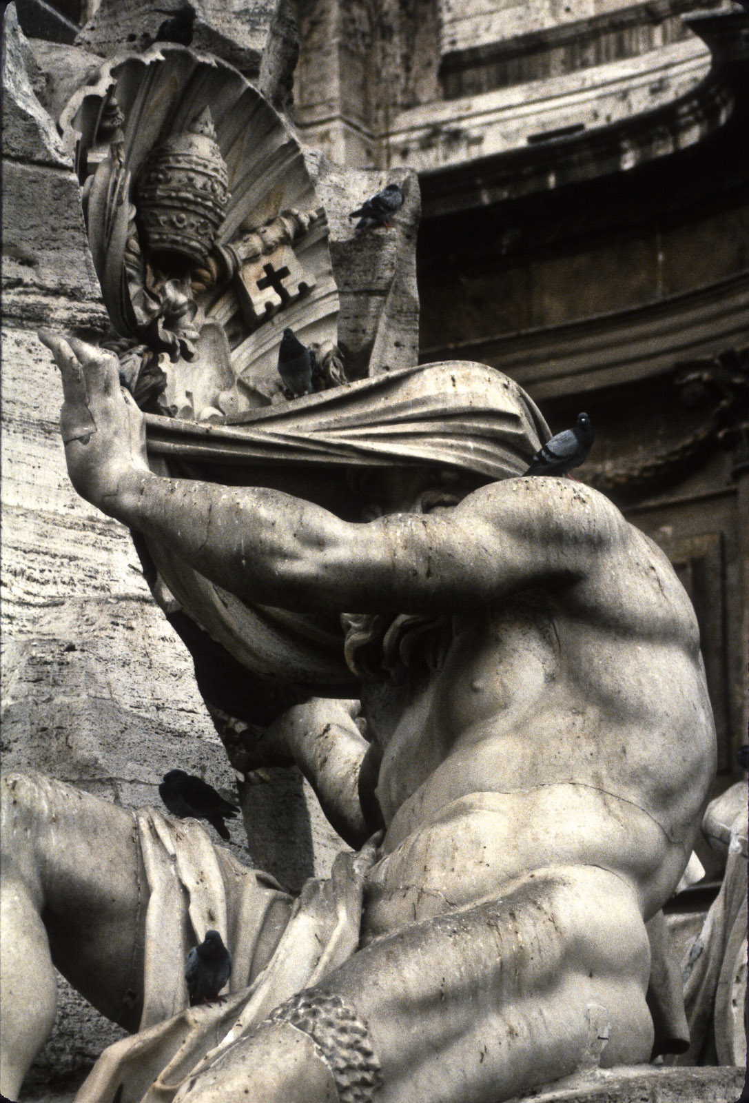 Fountain of four rivers TheNile